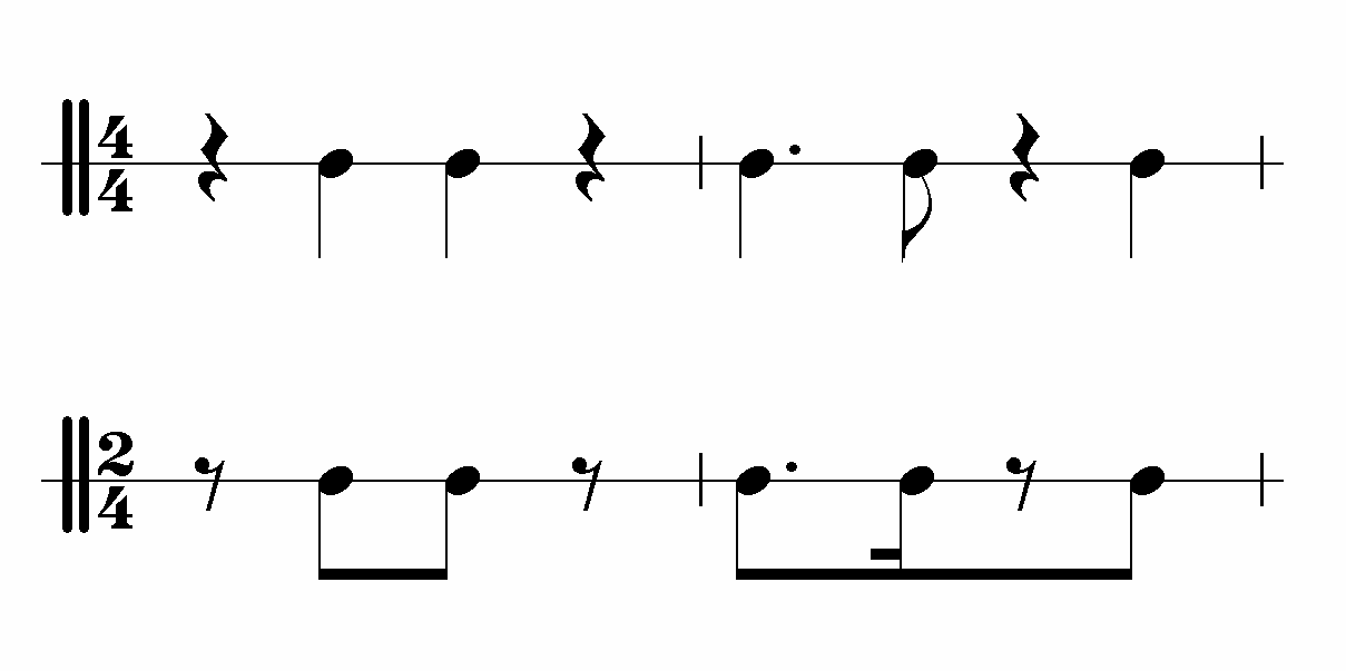 The "clave del son" rhythmic pattern, frequently used in Latin music, in its so-called 2-3 or "forward" direction. The rhythm is shown here in "modern" 4/4-time notation (popular in Europe and the US) as well as in its "traditional" 2/4 form (still favored by many Latin American musicians). File by the uploader using Music Publisher 5.